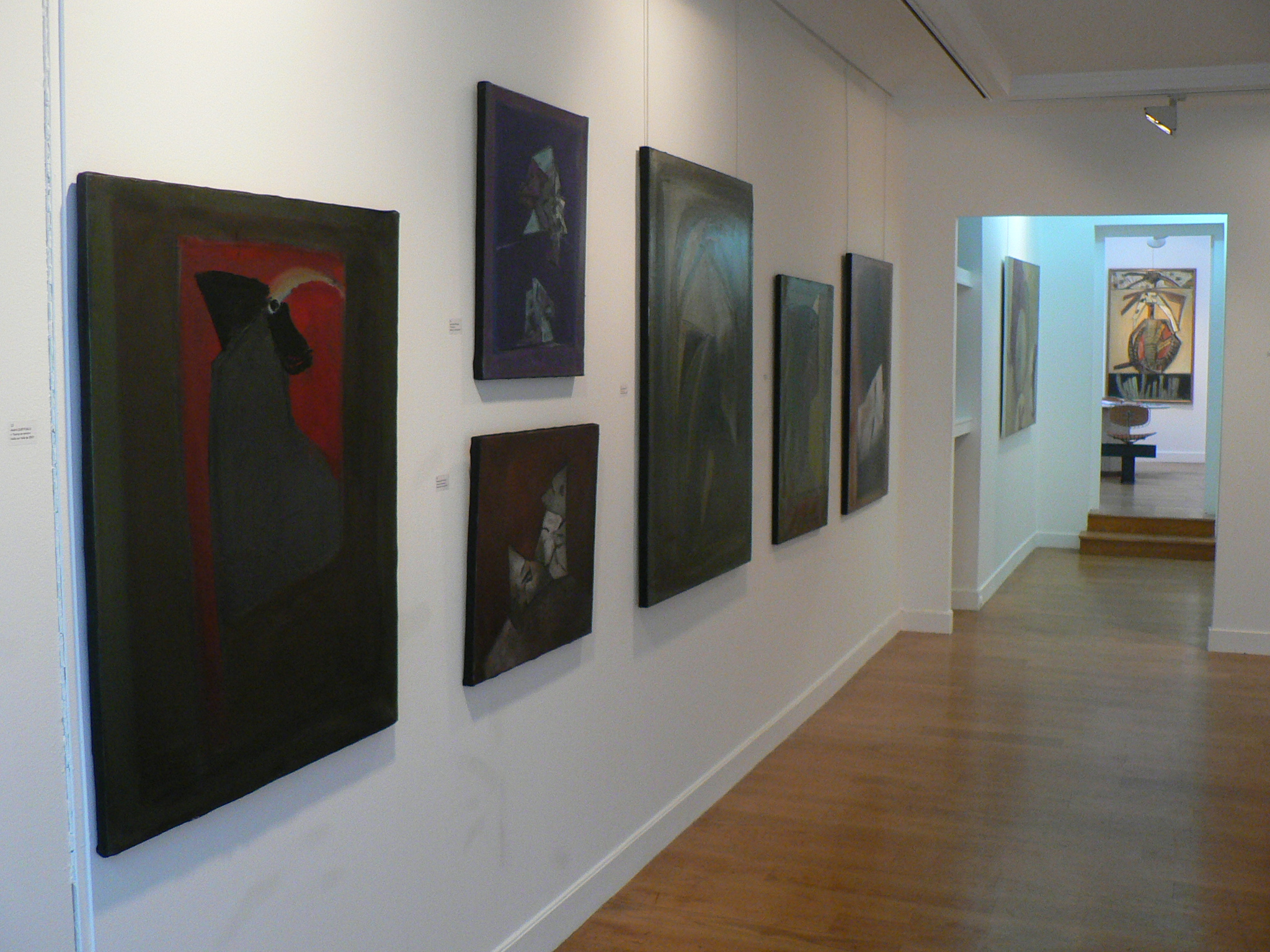 Art exhibition of Andre Queffurus in 12 rue Guenegaud, Paris (France) in september 2007.